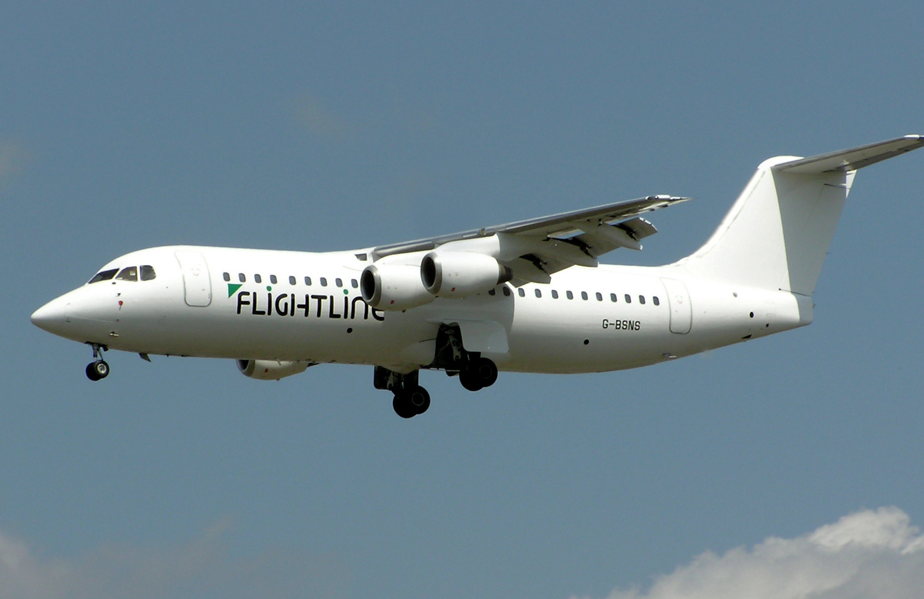 Flightline British Aerospace 146-300 (G-BSNS) landing at London Heathrow Airport. Photographed by Adrian Pingstone in July 2004 and released to the public domain.